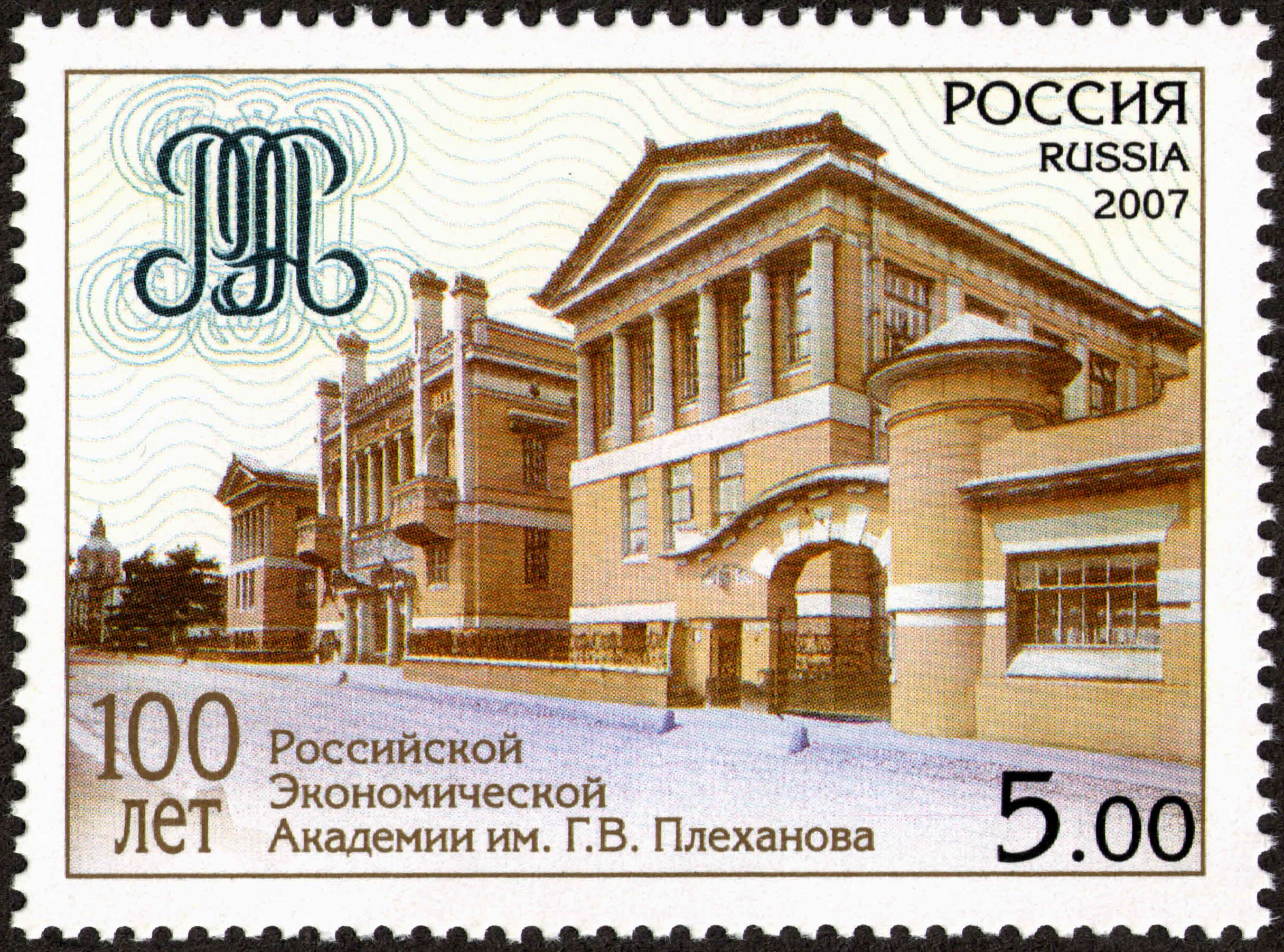 Stamps of Russia. The 100th anniversary of the Russian Economic Academy named after G.V.Plekhanov, 2007